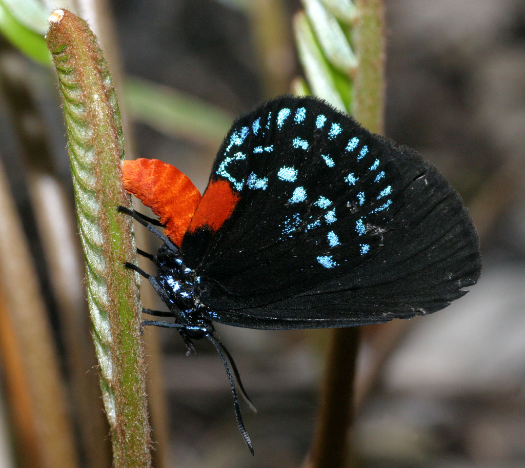 Atala , Eumaeus atala. Female ovipositing on Coontie (cycad). Location: Palm Beach County, Florida, United States. (Version with sensor dust edited out.)